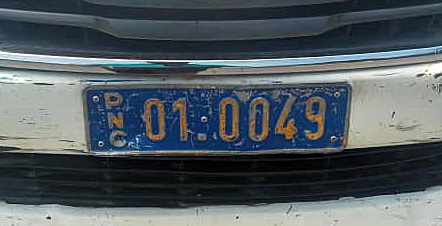 This is an image with the theme "Africa on the Move or Transport" from: Democratic Republic of the Congo